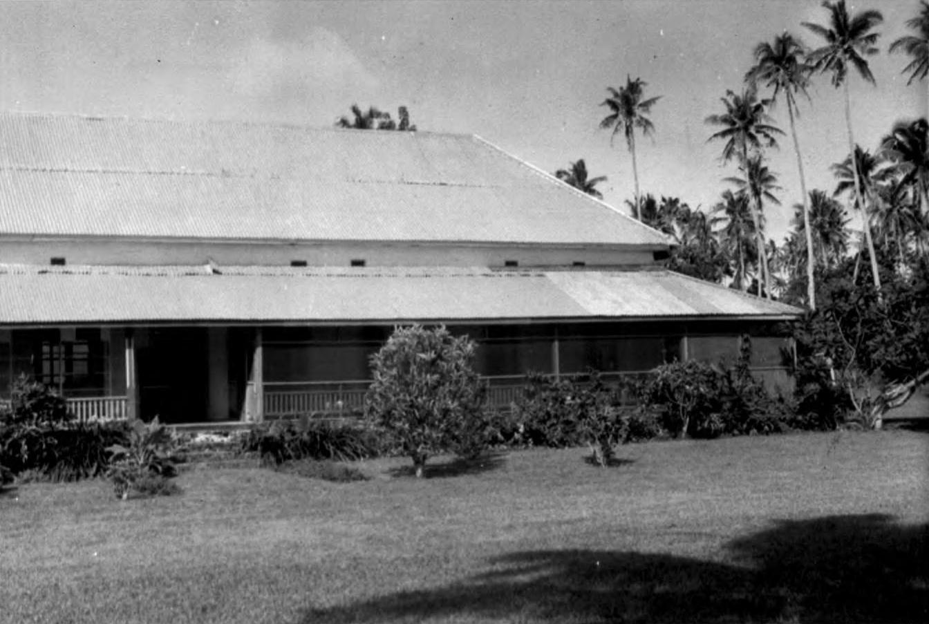 The historic Fagalele Boys School (built before 1900, possibly as early as 1850), located in Leone village, American Samoa, is listed on the United States National Register of Historic Places.